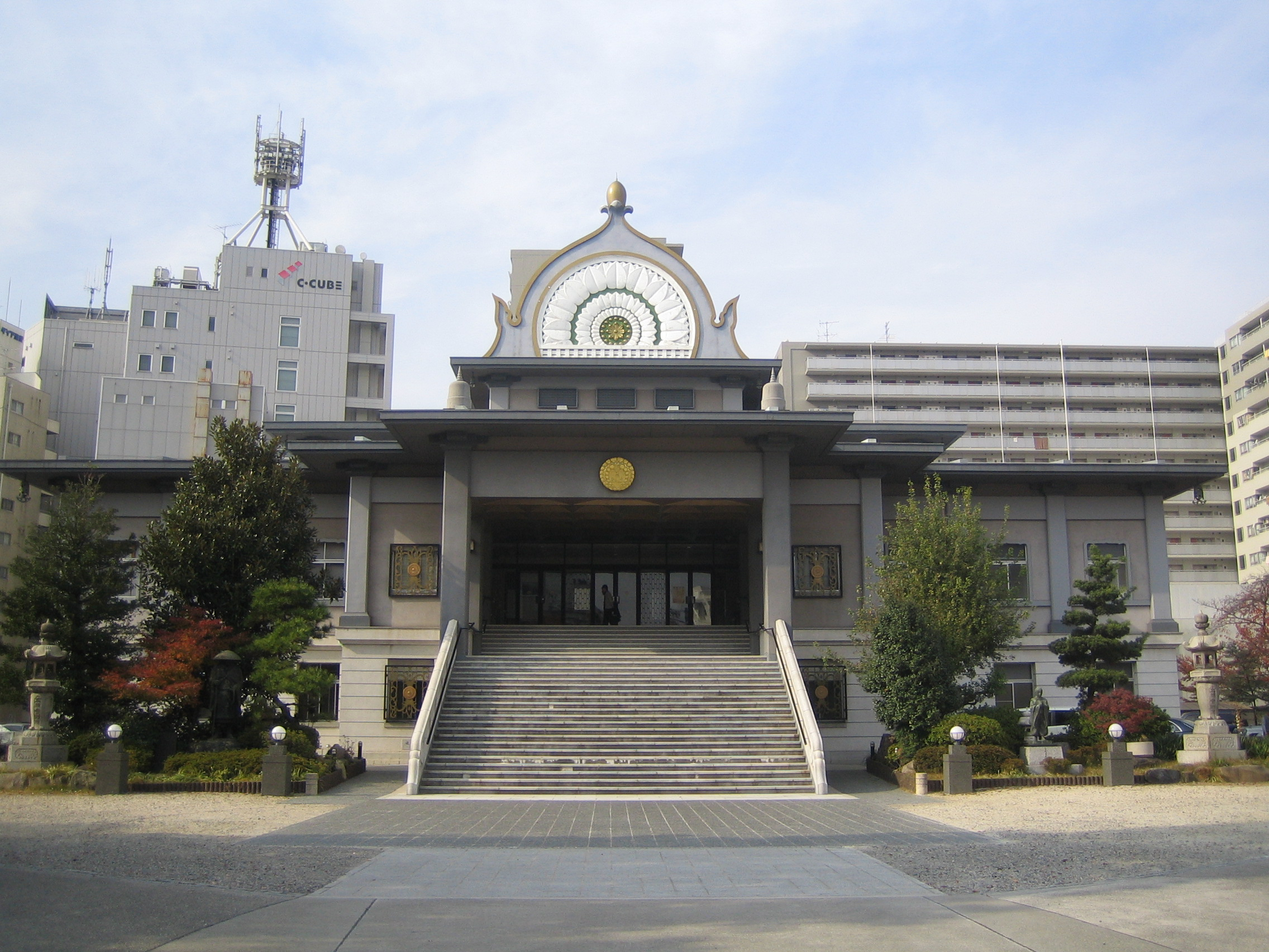 Honganji Nagoya Betsuin (本願寺名古屋別院), located at Naka, Nagoya, Aichi, Japan